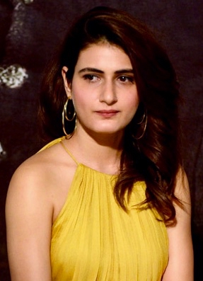 Fatima Sana Shaikh at the trailer launch of Thugs of Hindostan in 2018